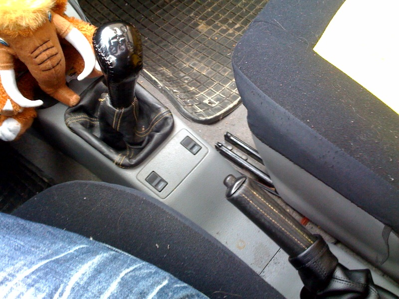 Felicia Sportline package